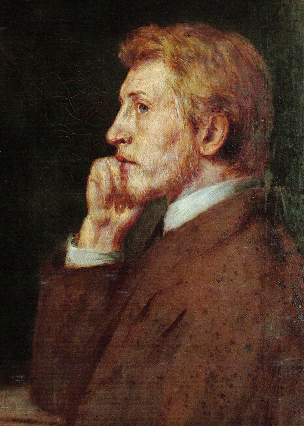 Portrait of Adolf von Hildebrand by Hans von Marées. Detail from Bildnis Hildebrand und Grant (1870), Kunsthalle Mannheim.